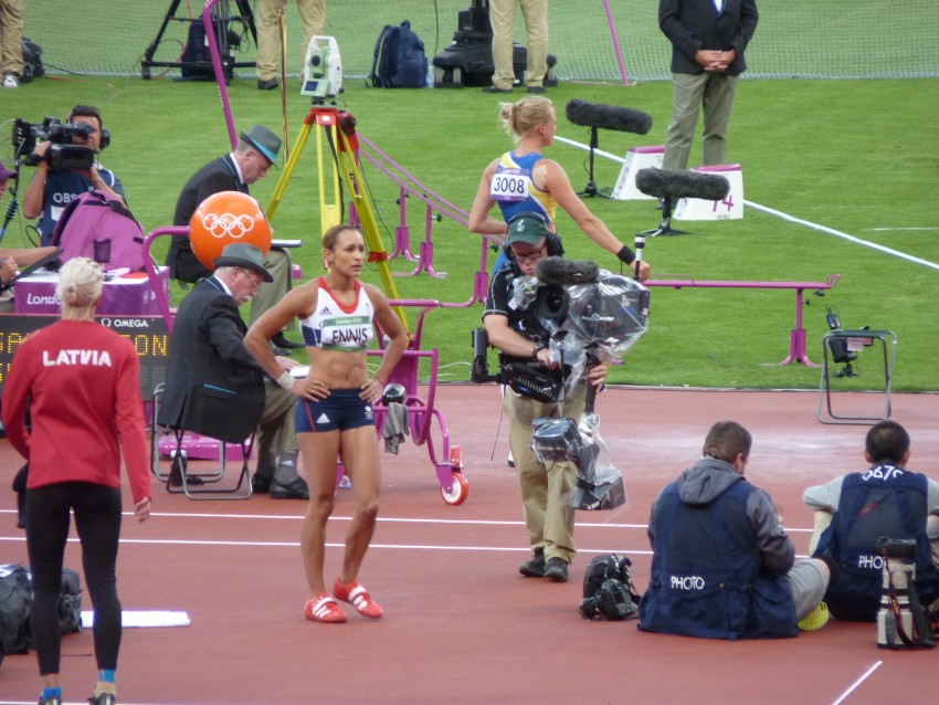 Olympic Stadium, Friday 3 August, London Olympic Games